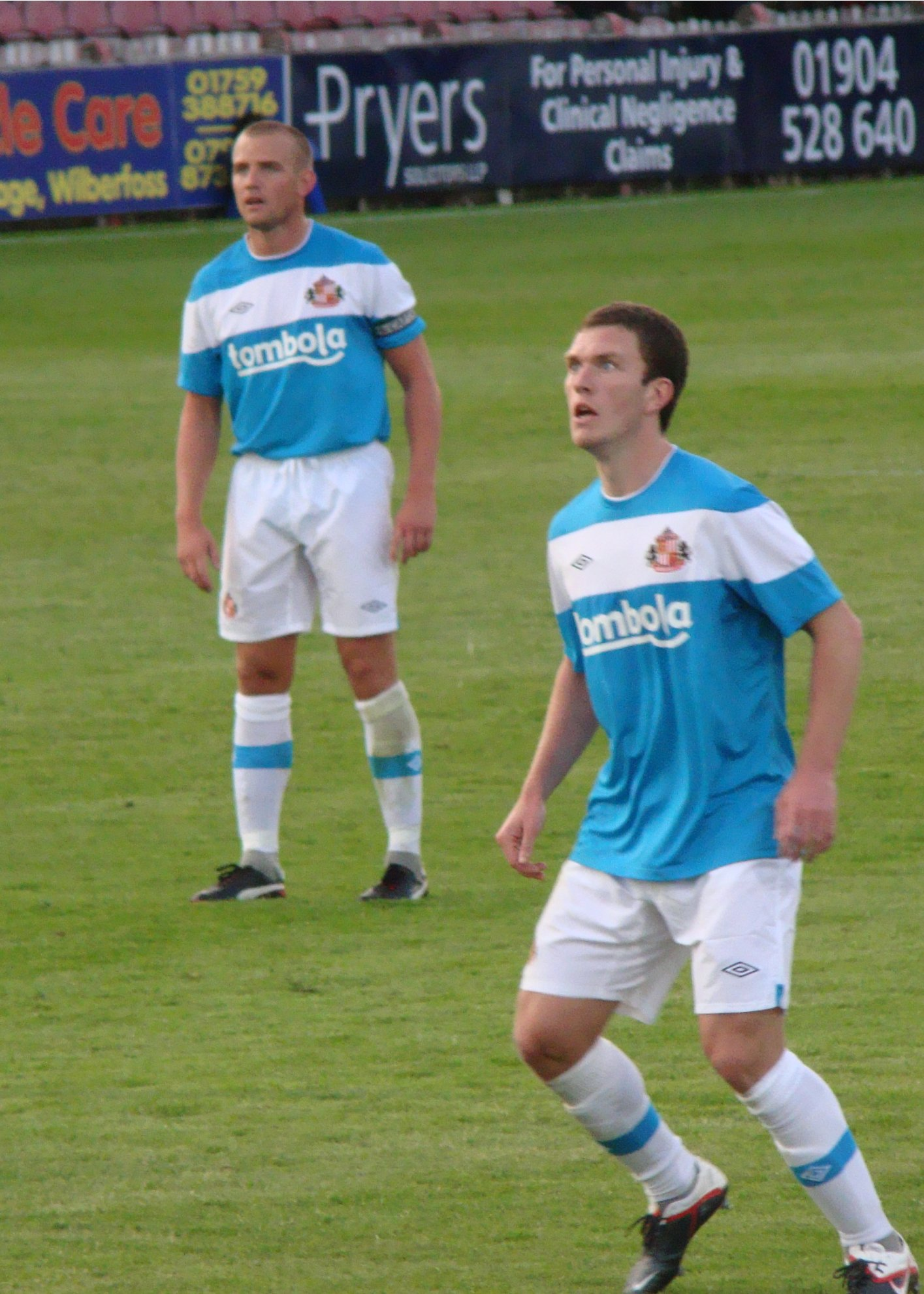 Cattermole and Craig Gardner, YCFC vs SAFC